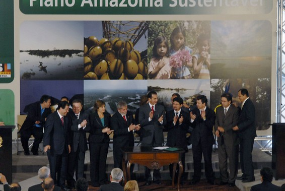 The President of Brazil, Luiz Inácio Lula da Silva, and State governors applaud during the launch of the Sustainable Amazon Plan.